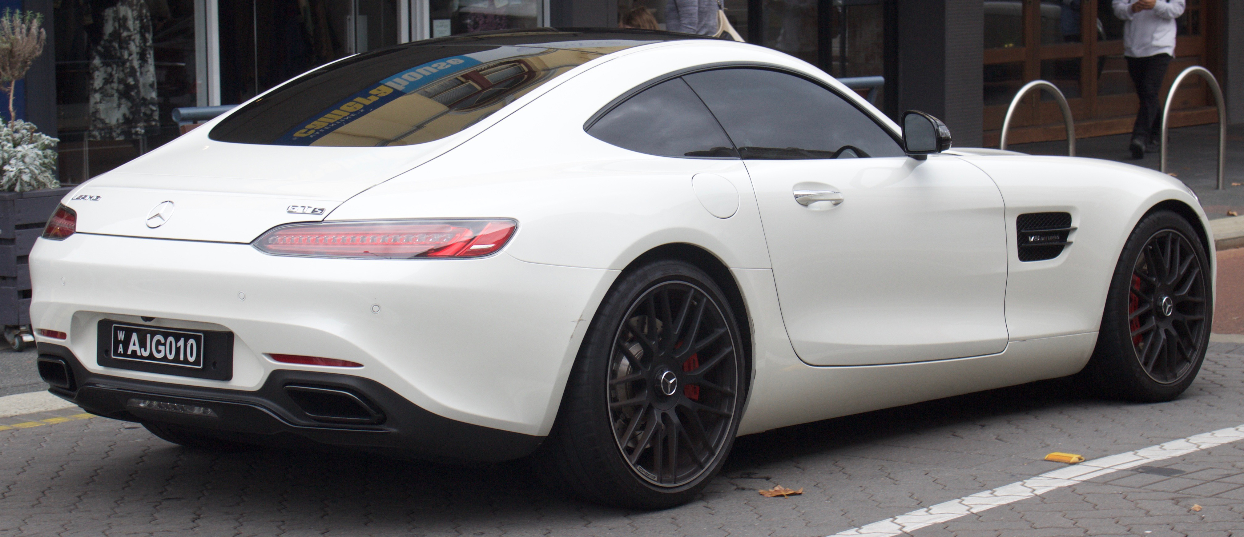 2015-2017 Mercedes-AMG GT (C 190) S coupe. Photographed in Fremantle, Western Australia, Australia.